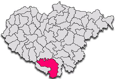 Map Salaj County Romania